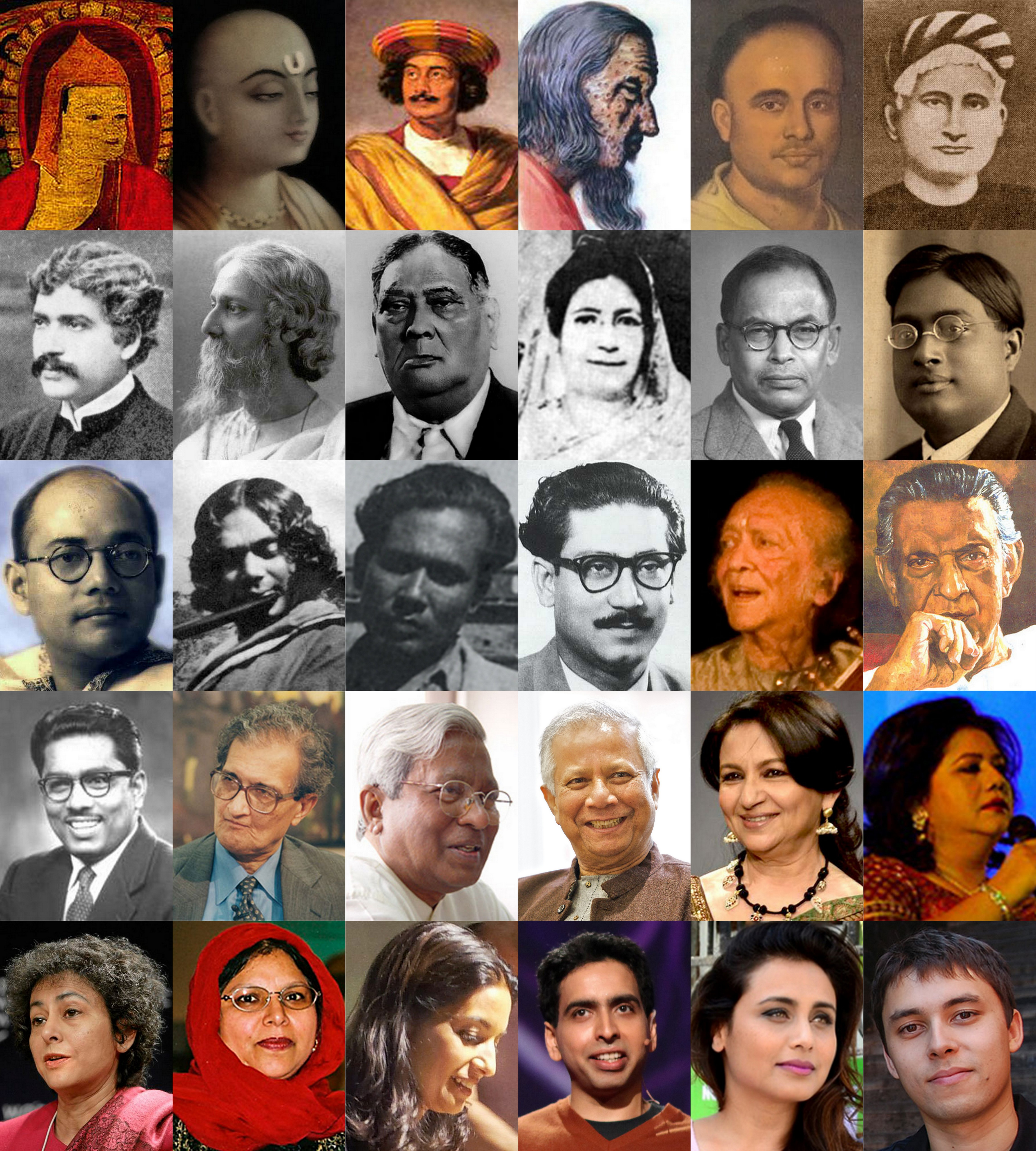 Bengali people collage/mosaic. It seems some news agency are publishing reports based on this picture. Please note that if someone appears on this collage doesn't mean Wikimedia/Wikipedia officially recognize them. This is not an award or achievement list of any kind. The picture was originally intended for English Wikipedia article Bengalis but it was then removed due to a policy "Articles about ethnic groups or similarly large human populations should not be illustrated by a photomontage or gallery of images of group members" to avoid confusion.